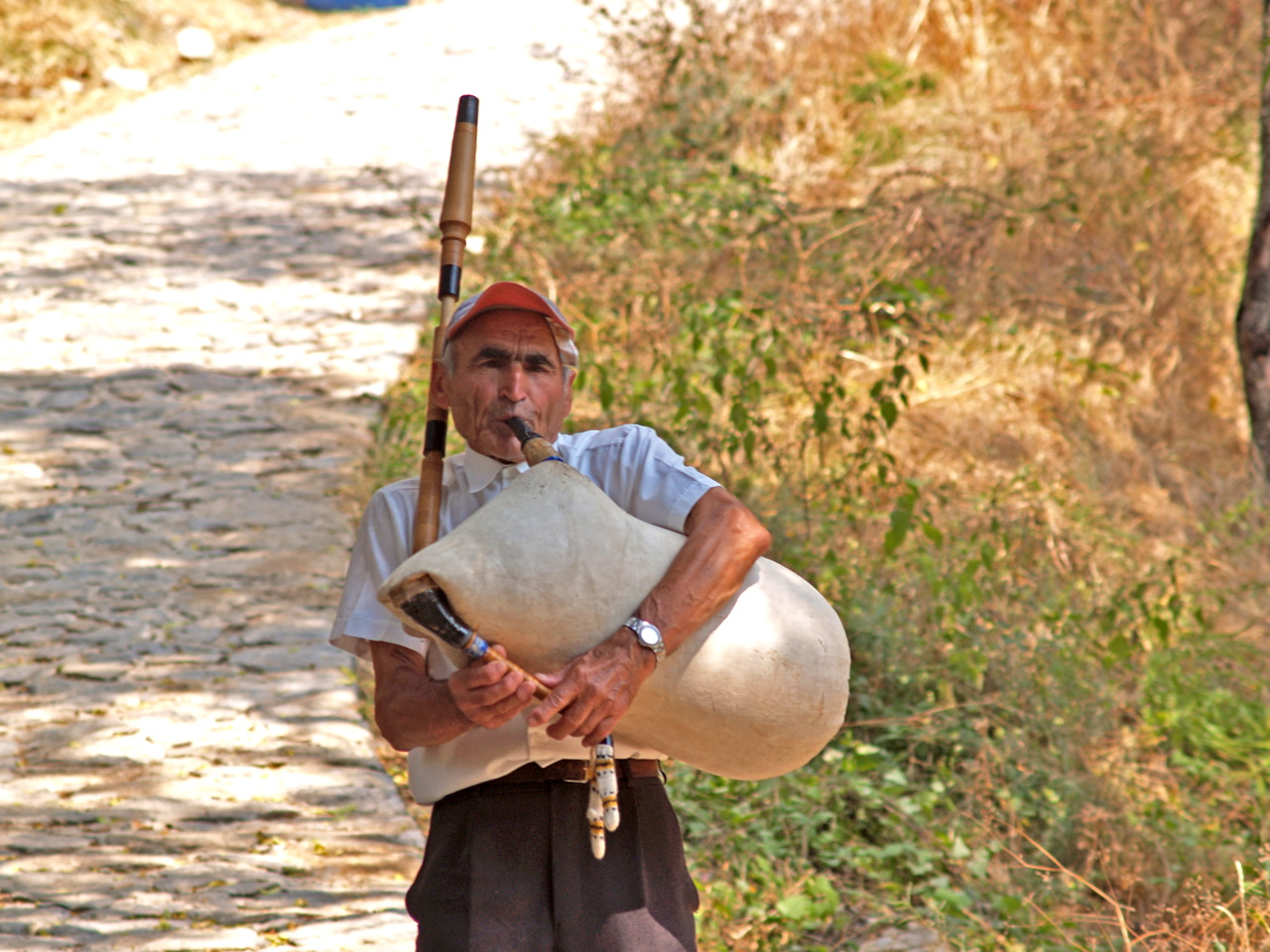 Bagpiper in Ohrid, Macedonia